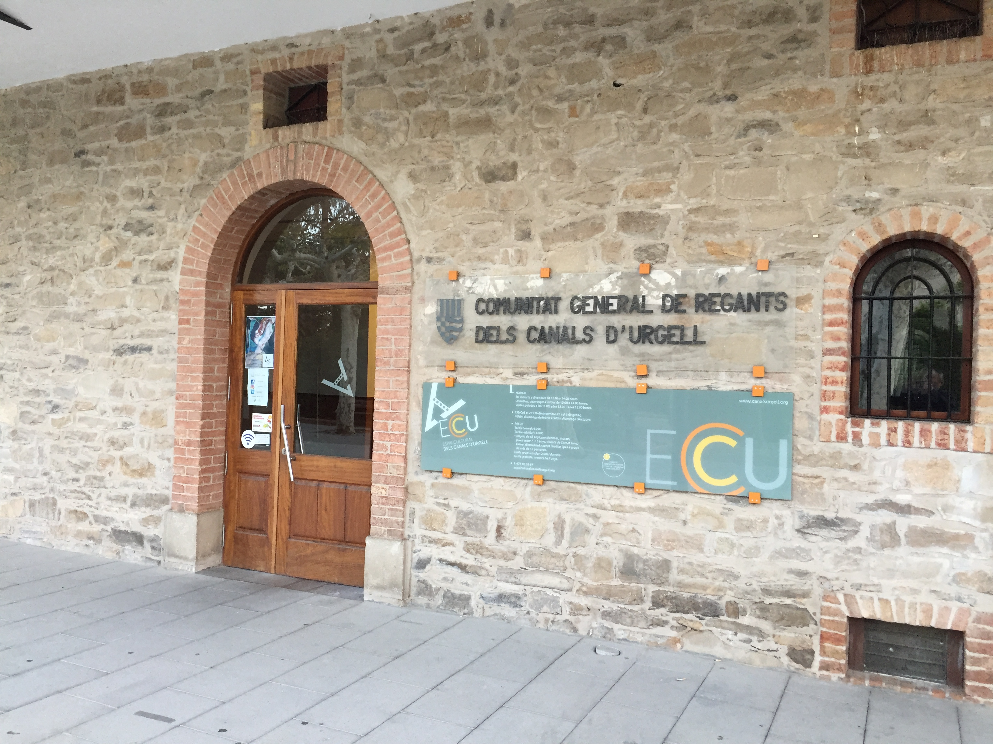 Casa Canal Access door